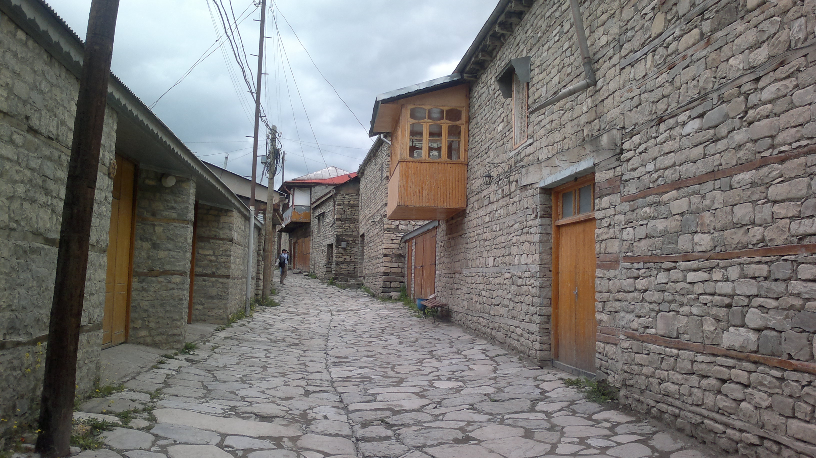 N. Huseynov street in Lahij settlement